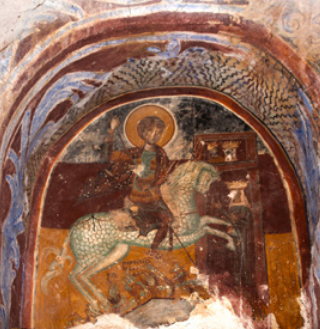 Saint Petra Church inCrešnevo Fresco 1601